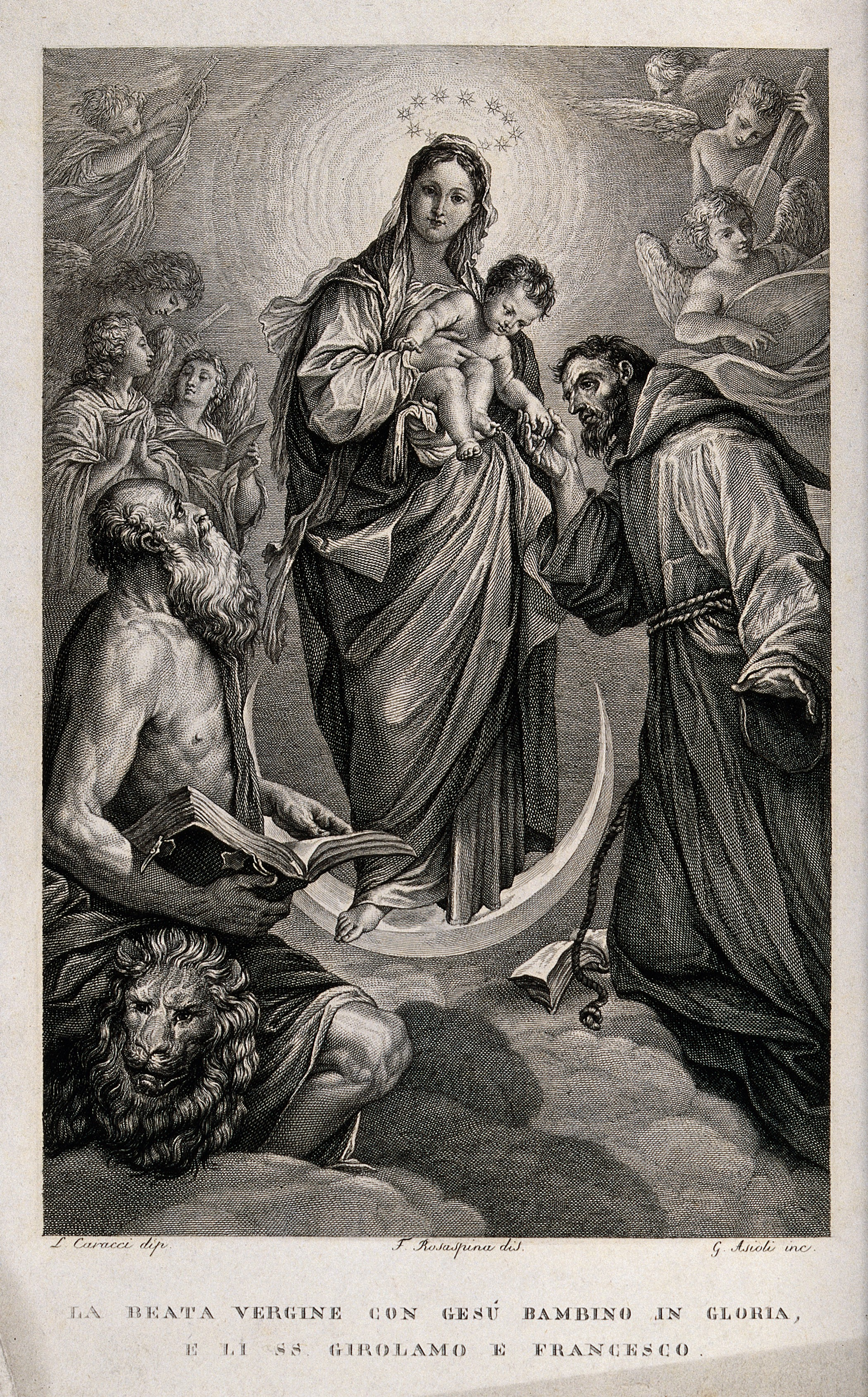 Saint Mary (the Blessed Virgin) with the Christ Child, Saint Jerome and Saint Francis of Assisi and angels. Engraving by G. Asioli after F. Rosaspina after L. Carracci. Iconographic Collections